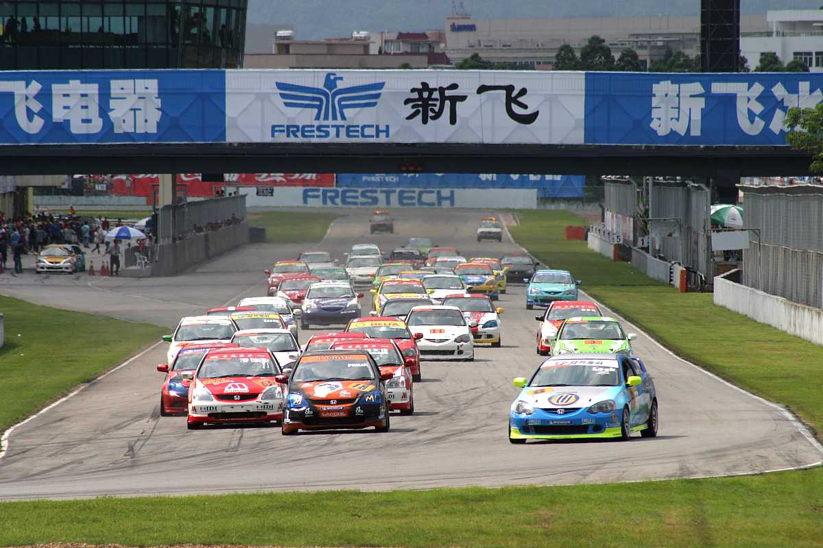 2007 Hong Kong Touring Car Championship race start at Zhuhai International Circuit.